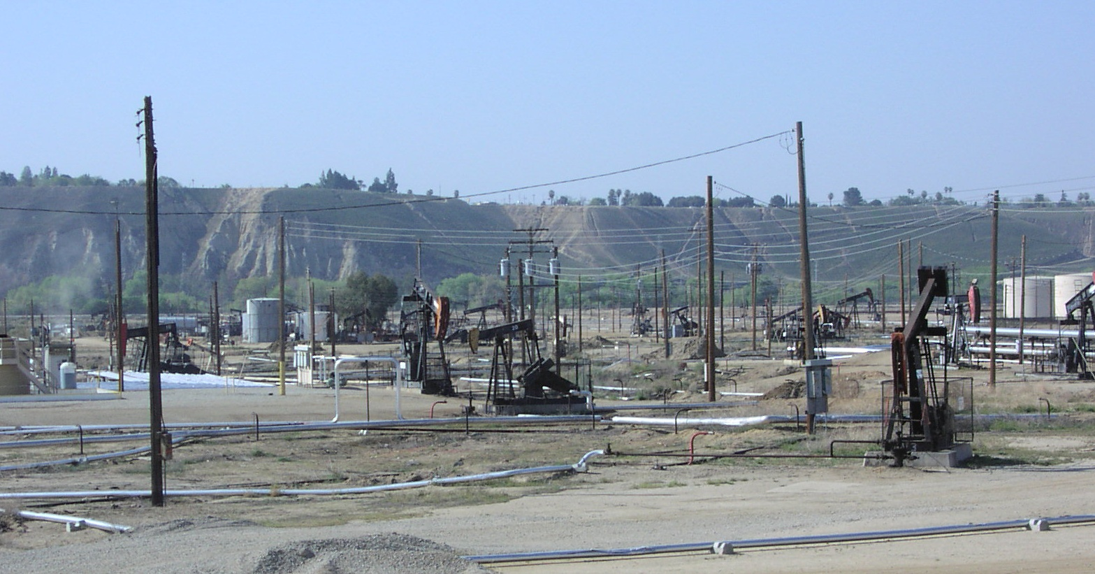 Kern River Oil Field, area of active operations; photo by User:Antandrus on March 22, 2008; GFDL